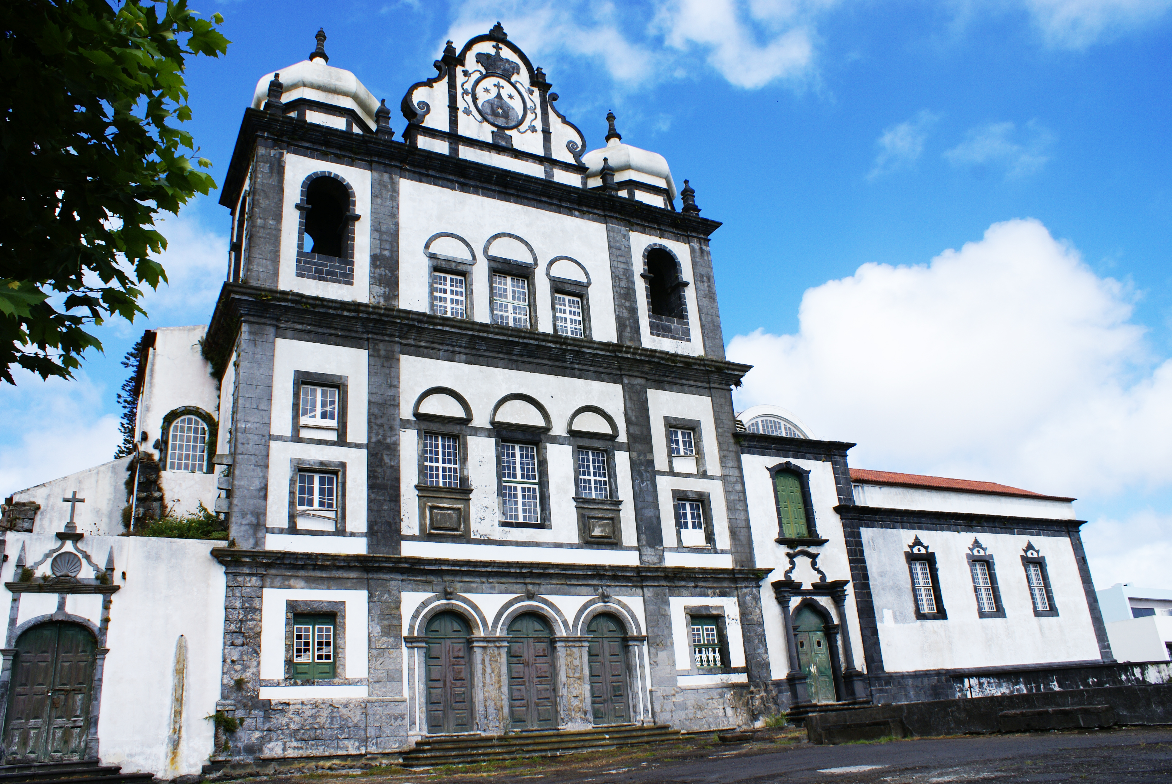 Igreja de Nossa Senhora do Carmo, anexa ao Convento do Carmo, Horta, ilha do Faial, Açores, Portugal